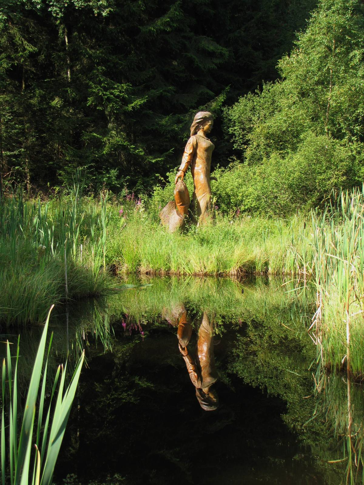 Germany / North Hesse / mountain "Hoher Meißner":memorial of the weather woman "Frau Holle"